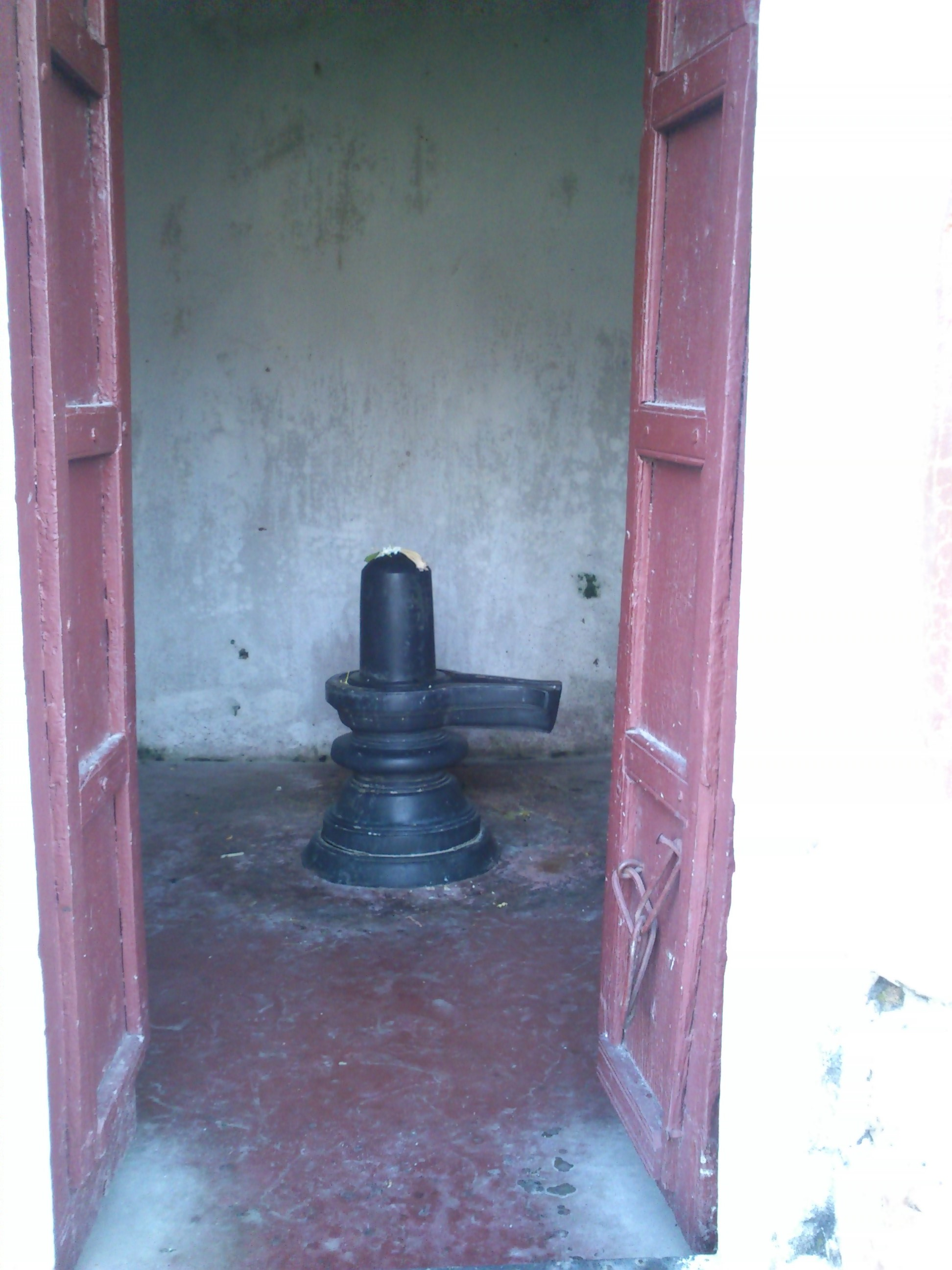 Built by maharaja teja chandra bahadhur in 1809 ad these atchala brick Temples are made out of auspicious numerical combination in two concentric Circles and dedicated to Siva. The outer circumference contains 74 temples and inner circumference has 34 temples. The temples Represent beads in a rosary symbolically